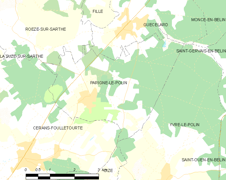 Map of French municipality